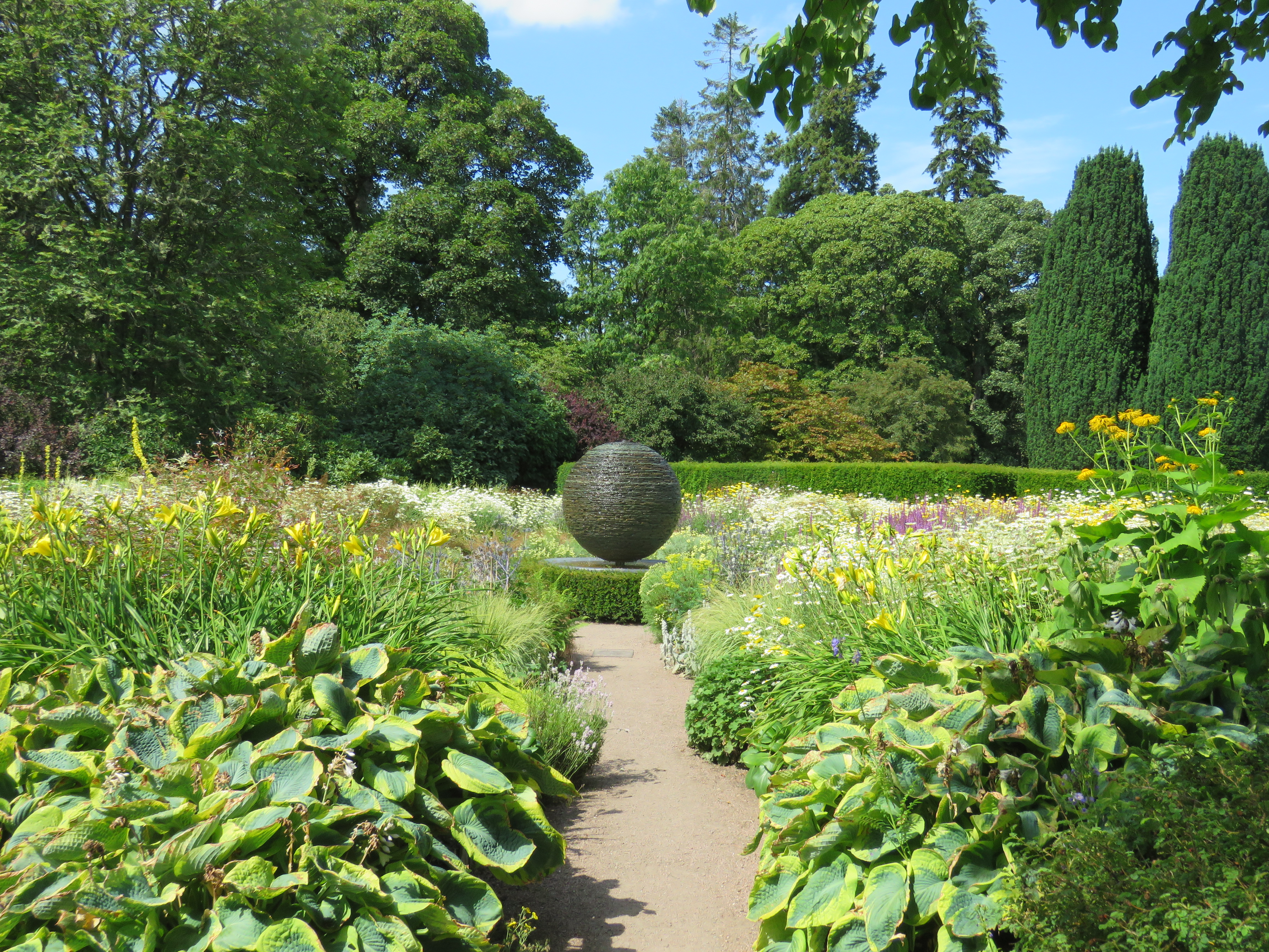 Cawdor Castle gardens, Scotland